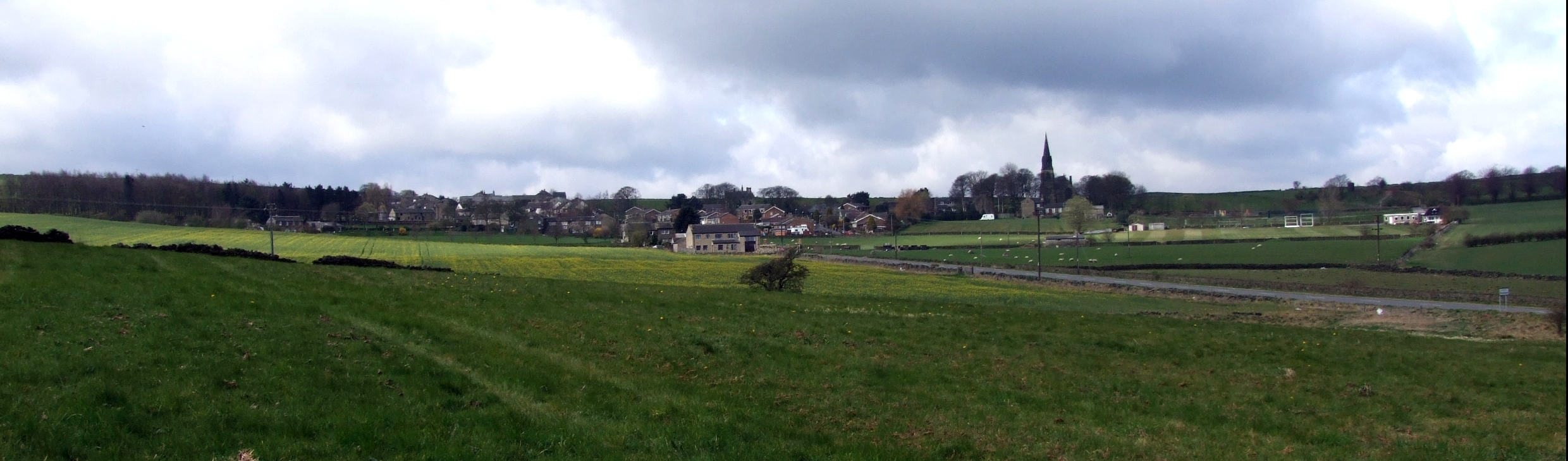 Thurstonland, Holmfirth, West Yorkshire, UK